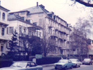 Historical hotel in Bad Homburg, Germany